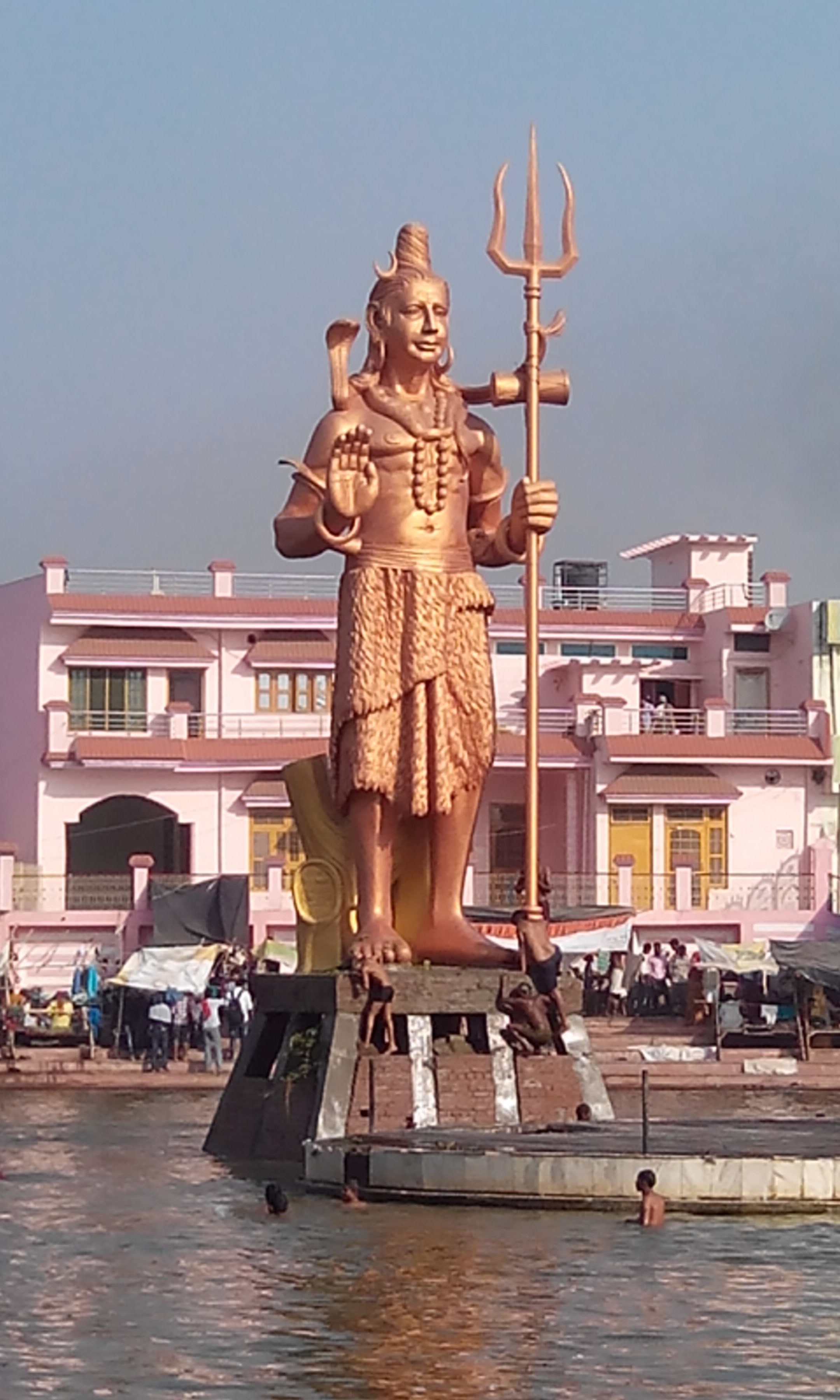 गोला गोकर्णनाथ स्थित स्वर्णेश्वर शिव प्रतिमा